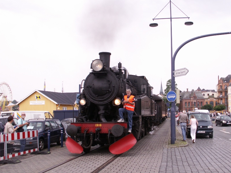 SJ (Swedish Railways) class S1 No. 1916 on the Flensburger Hafenbahn